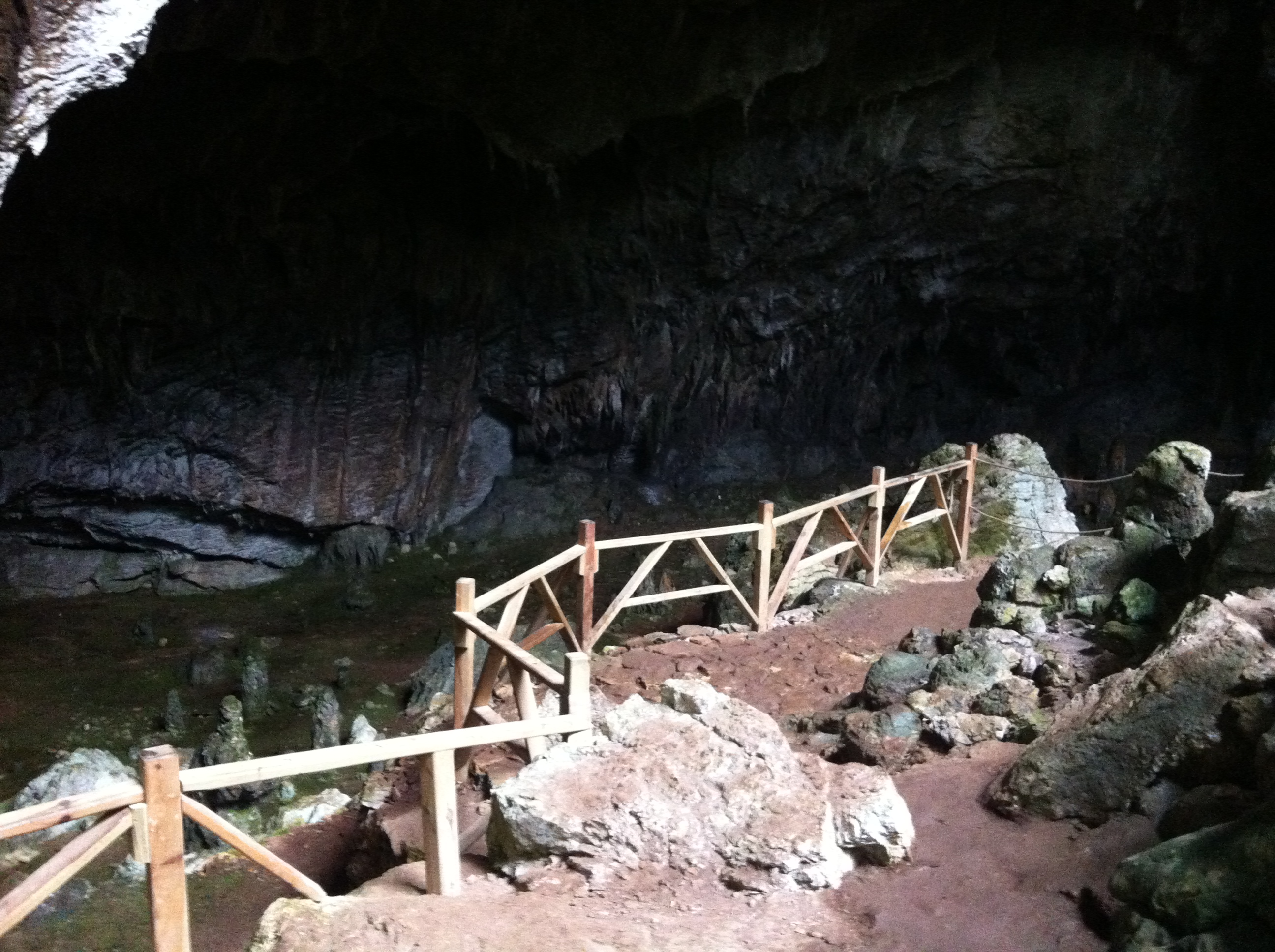 Nimara Cave, on Nimara Peninsula, near Marmaris, Turkey